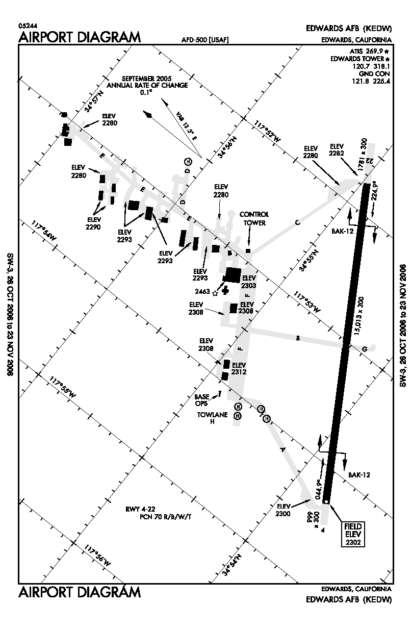 FAA airport diagram for EDW (Edwards Air Force Base) in California, United States.